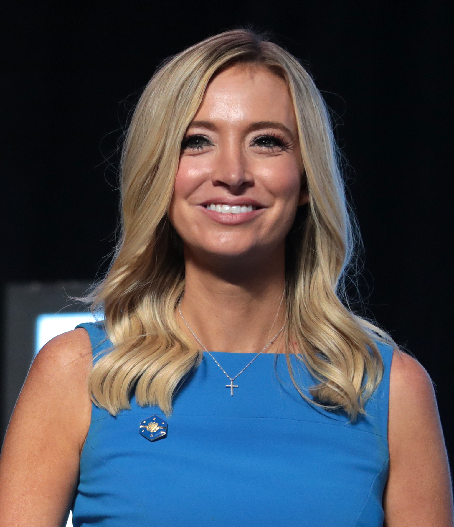 Press Secretary Kayleigh McEnany at "An Address to Young Americans" event, featuring President Donald Trump, hosted by Students for Trump and Turning Point Action at Dream City Church in Phoenix, Arizona.